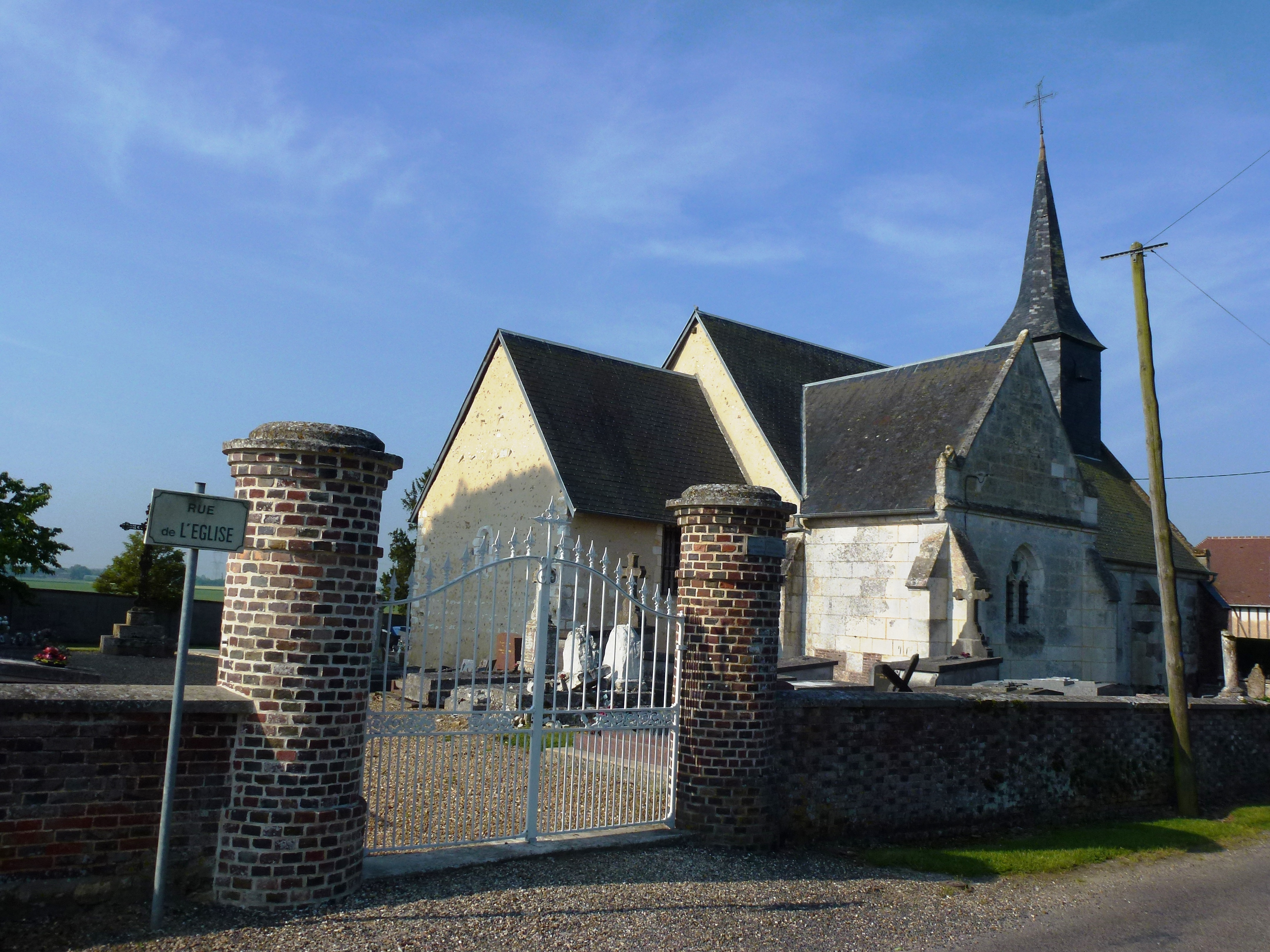 Le Tilleul-Lambert (Eure, Fr) église Saint-Martin